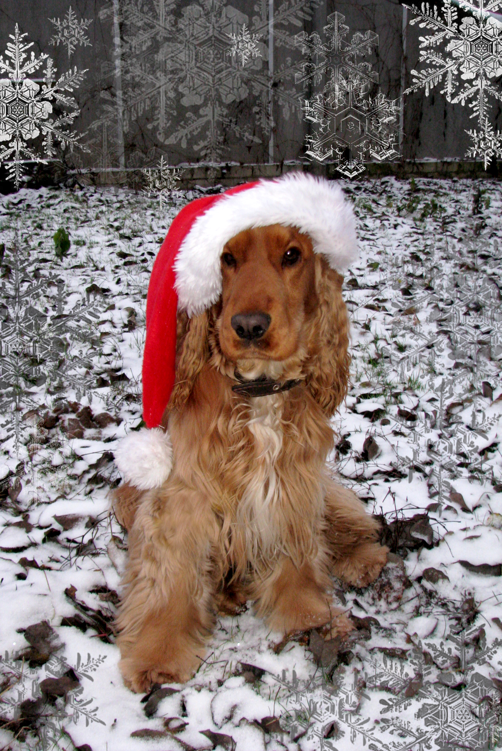 English cocker spaniel Jam new year 2010